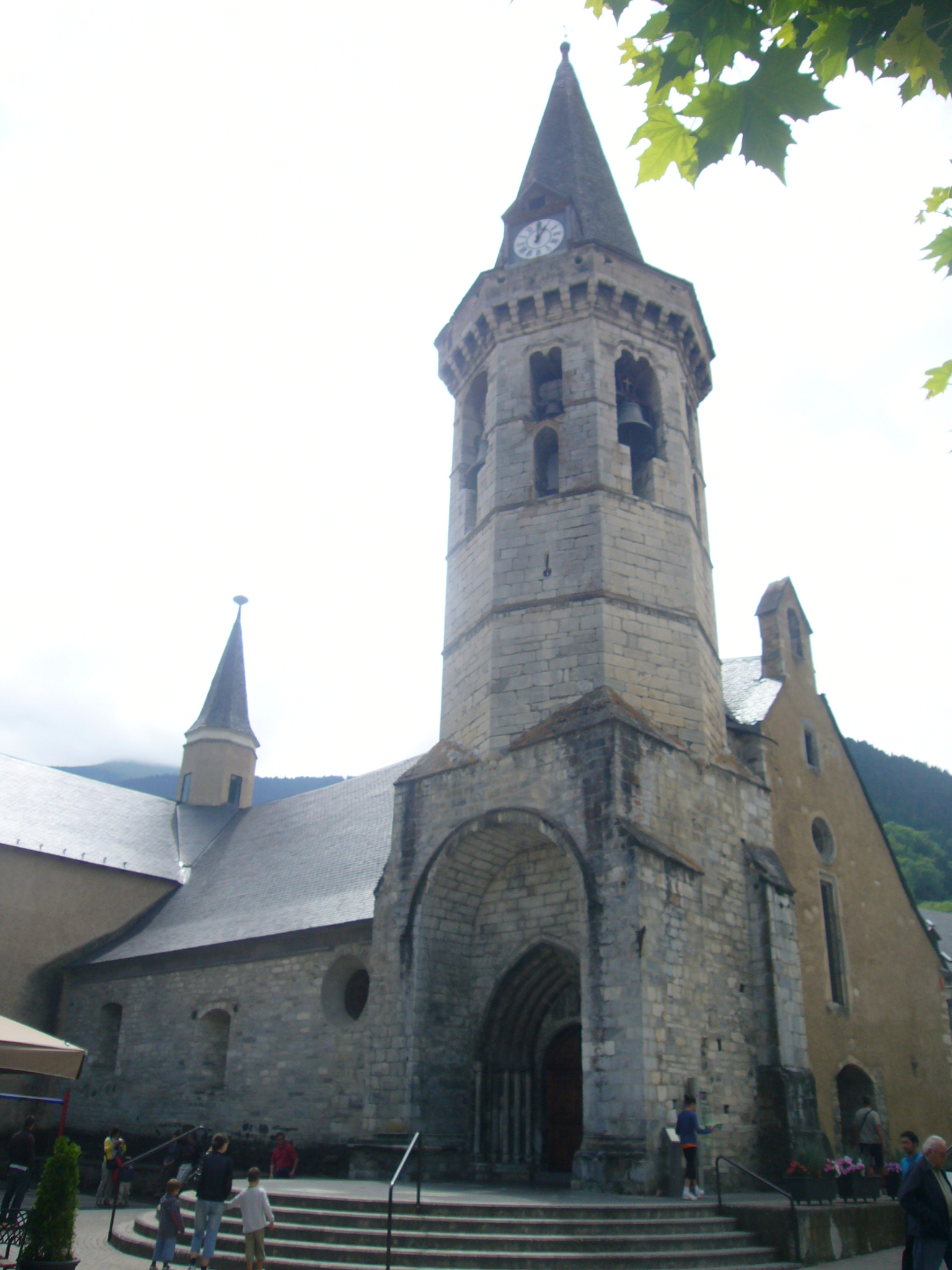 Torre campanar de Sant Miquèu de Vielha